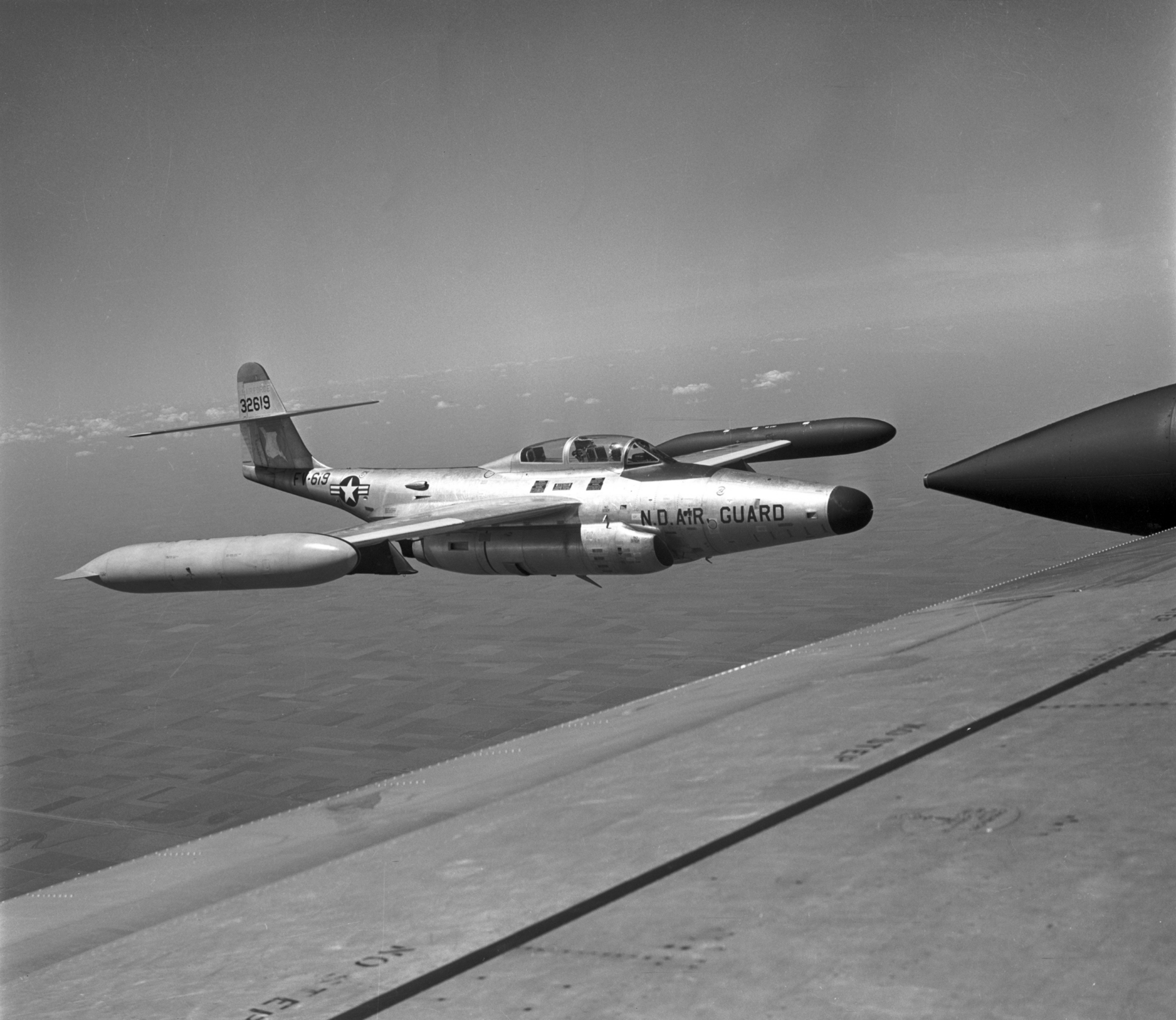 A U.S. Air Force Northrop F-89J Scorpion fighter (s/n 53-2619) from the 178th Fighter-Interceptor Squadron, 119th Fighter Group, North Dakota Air National Guard, in flight. The North Dakota Air National Guard flew the F-89 from 1960-1966.